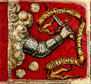 The Bedford Flag - First Battle Flag (1775) The Bedford flag on display at the Bedford Free Public Library is the oldest known surviving intact flag in the United States. It is celebrated for having been the first U.S. flag flown during the American Revolutionary War, as it is believed to have been carried by Nathaniel Page's outfit of Minutemen to the Old North Bridge in Concord for the Battle of Concord on April 19, 1775. The Latin motto on the flag, "Vince Aut Morire", means "Conquer or Die."